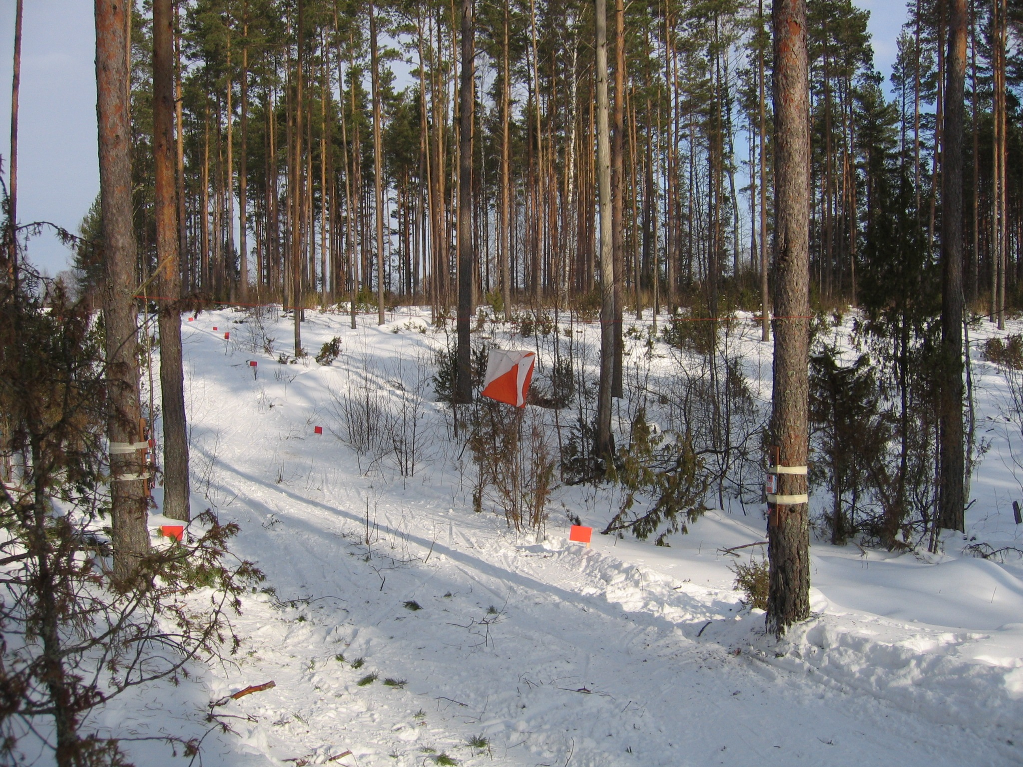 O-flag in ski orienteering